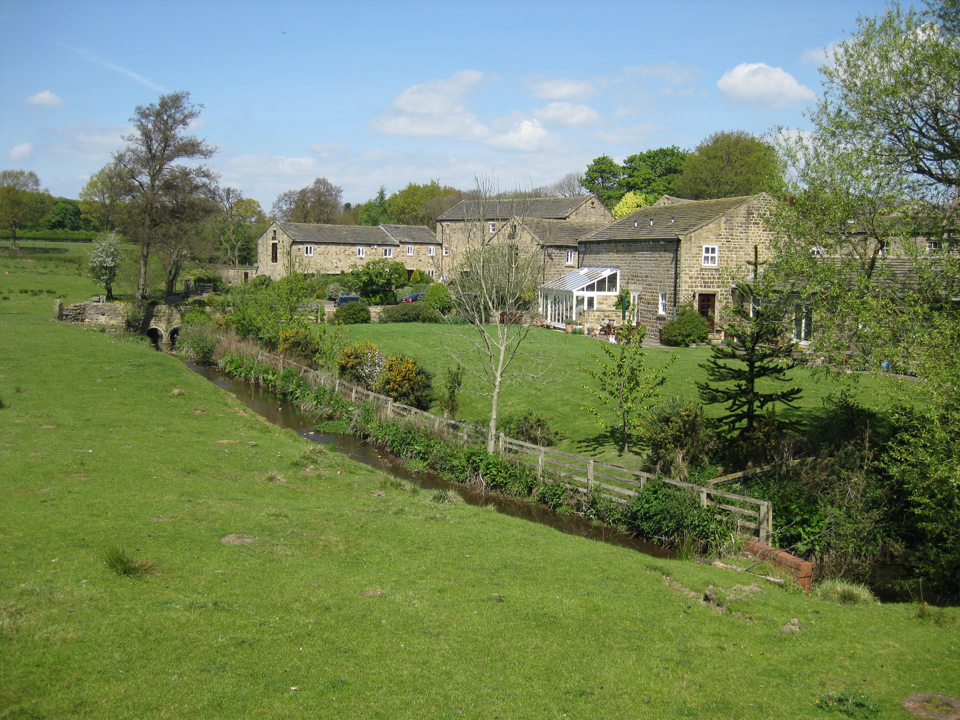 Adel Beck (stream) and buildings of the former Adel Mill Farm and millworkers cottages (now residences). A bridge over the stream .